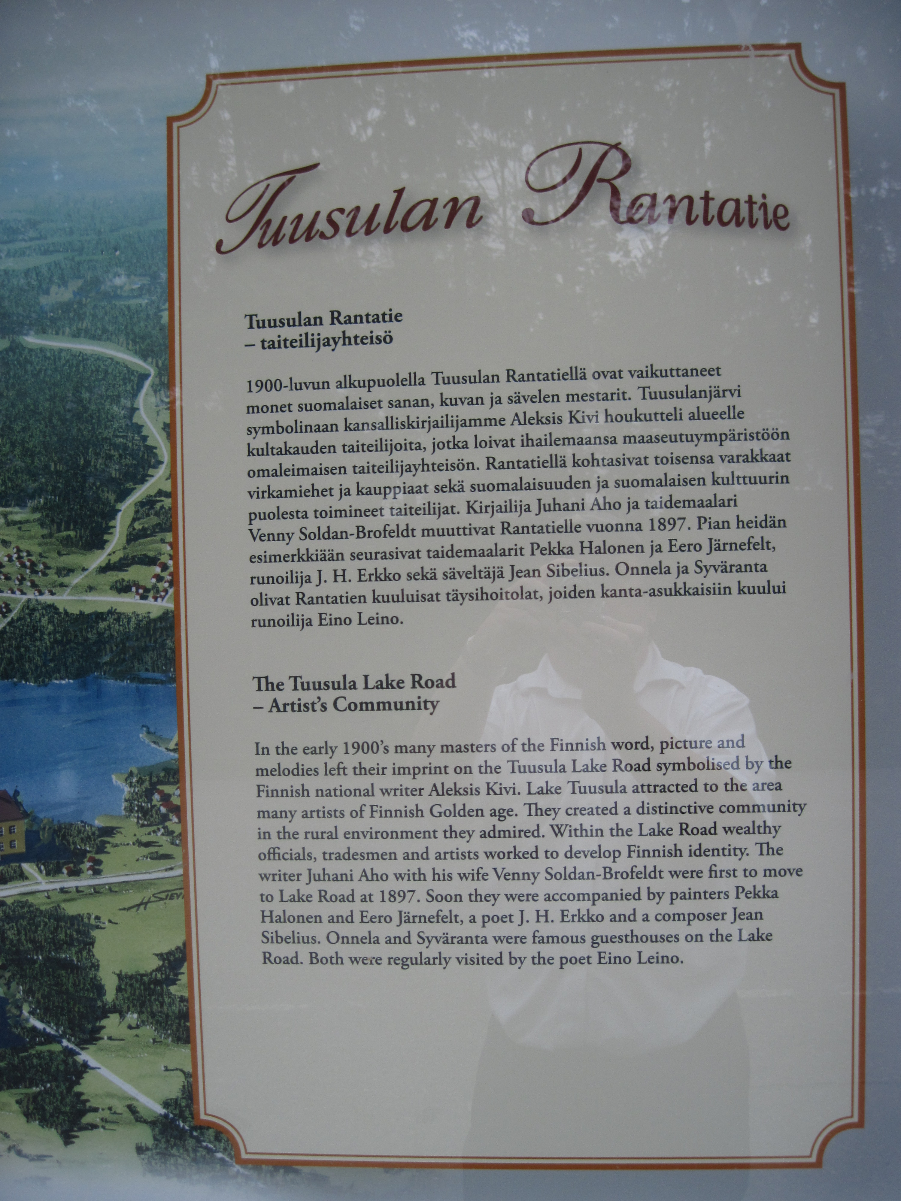 Guide sign on Rantatie, Tuusula